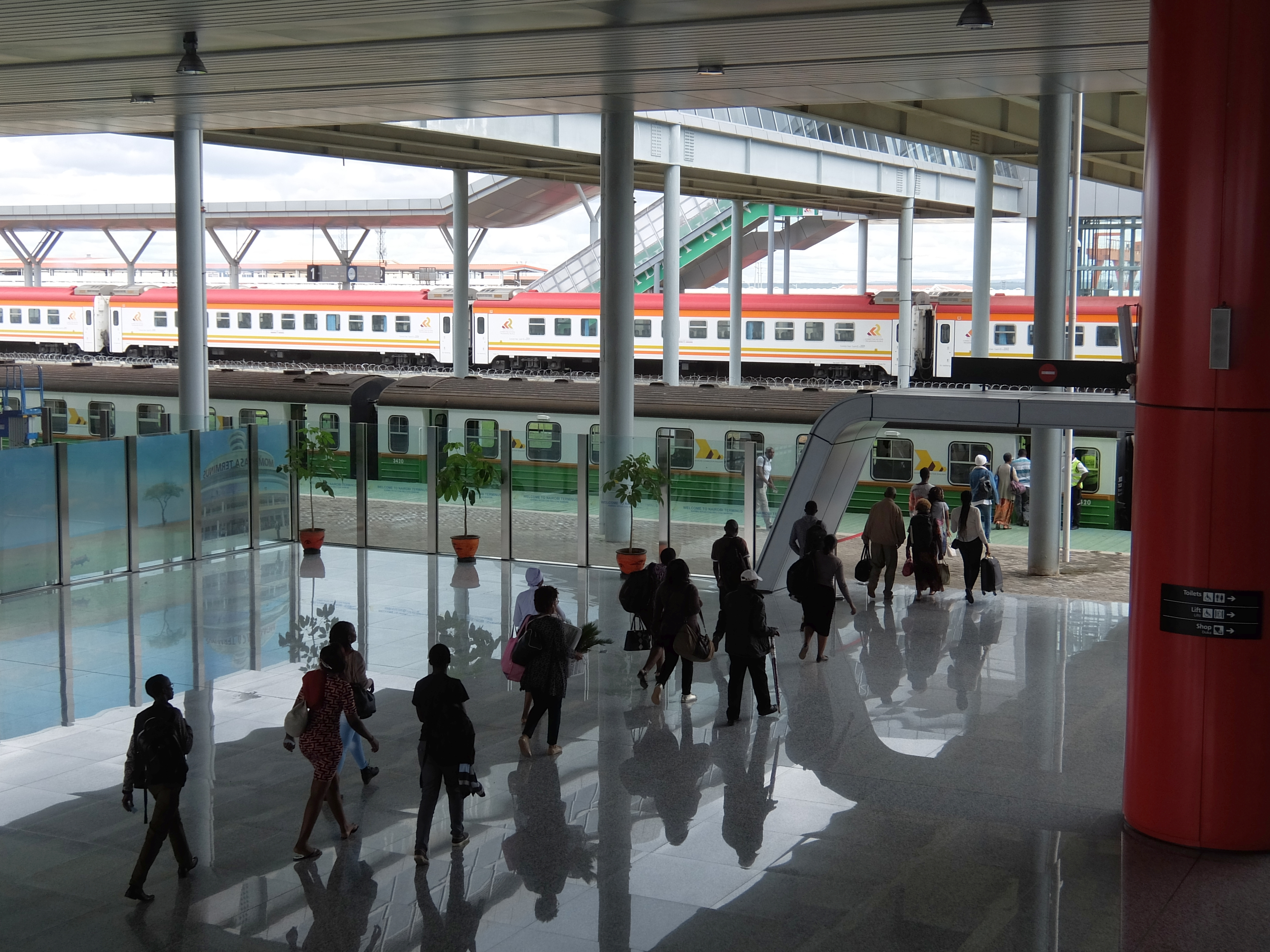 Passengers transferring at Nairobi Terminus from the SGR from Mombasa to the meter gauge train to Nairobi Central Station.